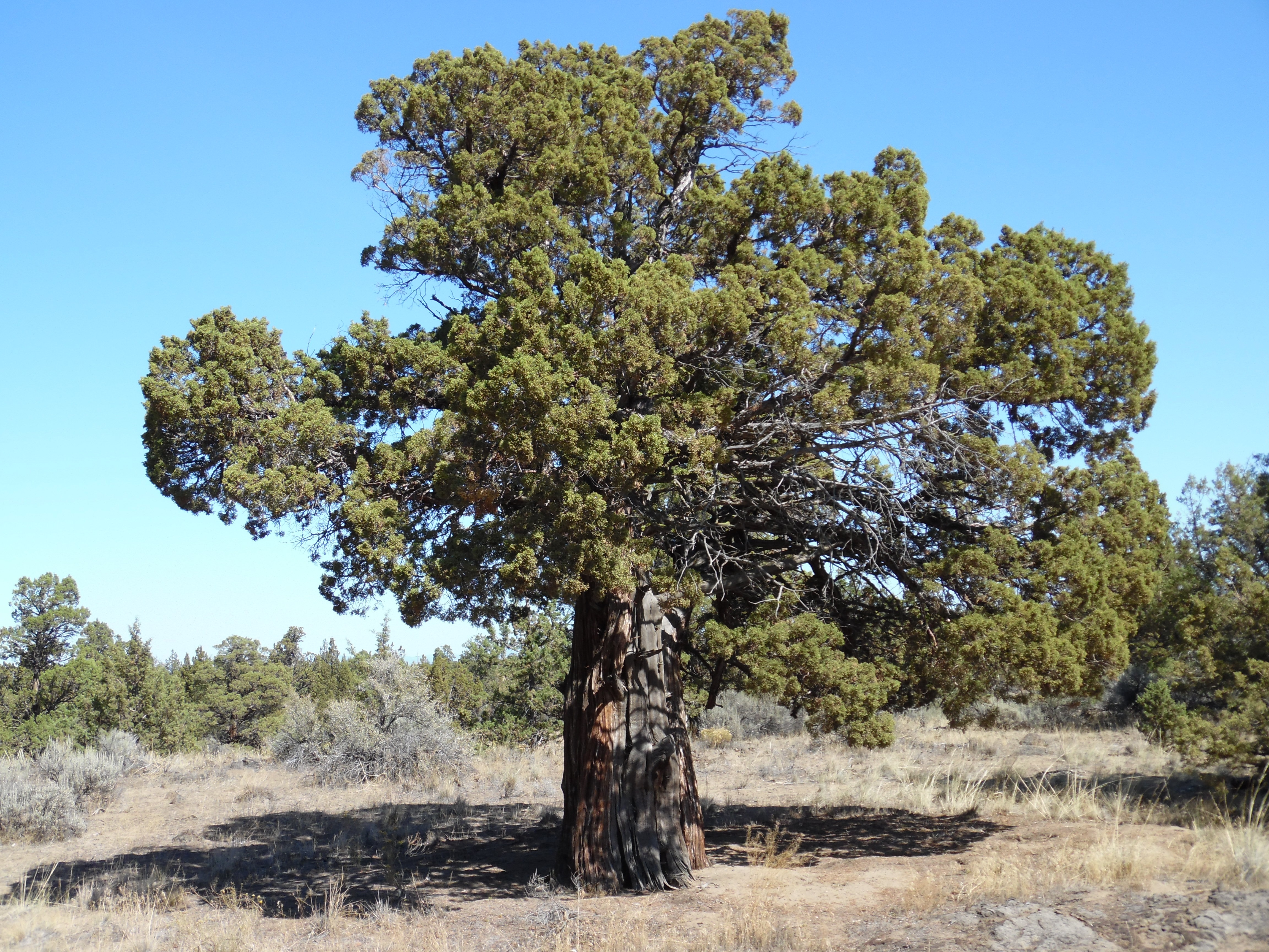 Old-growth western Juniper in Redmond-Bend Juniper State Scenic Corridor along U.S. Route 97 between Bend and Redmond in central Oregon. Photo taken near geo-location: 44.1842, -121.2407.